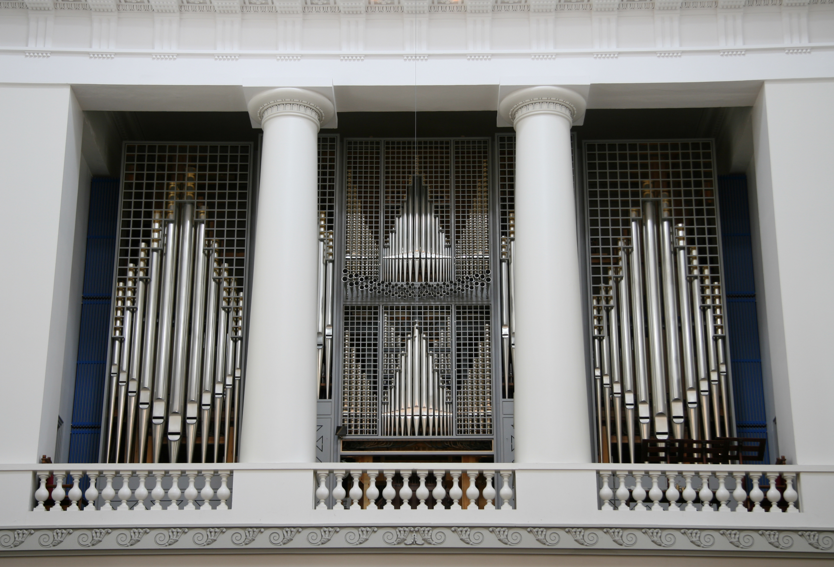 Vor Frue Kirke in Copenhagen, Denmark. The cathedral of Copenhagen. Main organ.